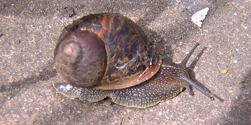 European brown snail